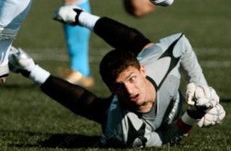 Nicolae Caláncea in action for FC Krylya Sovetov Youth